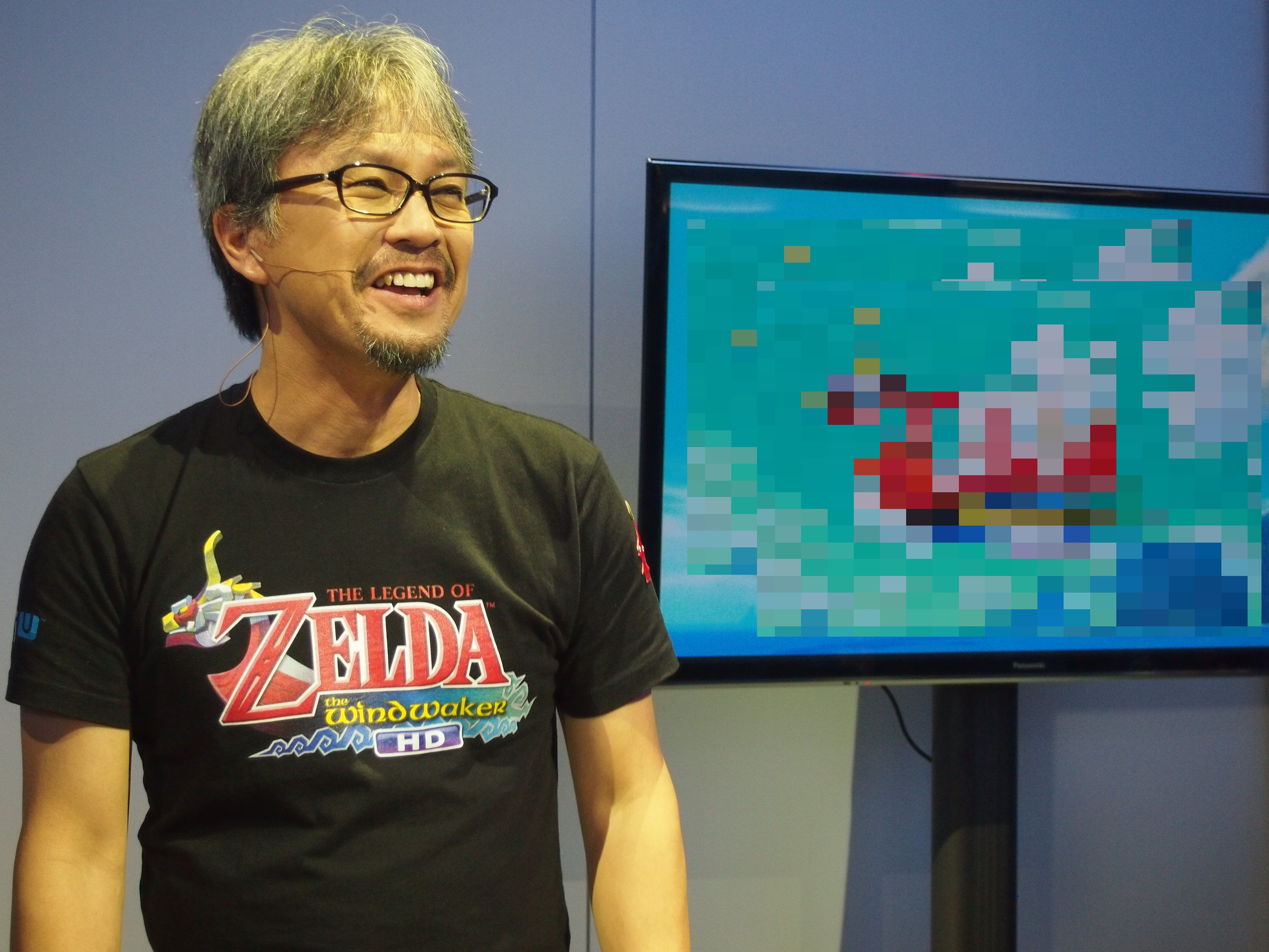 Eiji Aonuma, producer of the The Legend of Zelda series, at E3 2013.